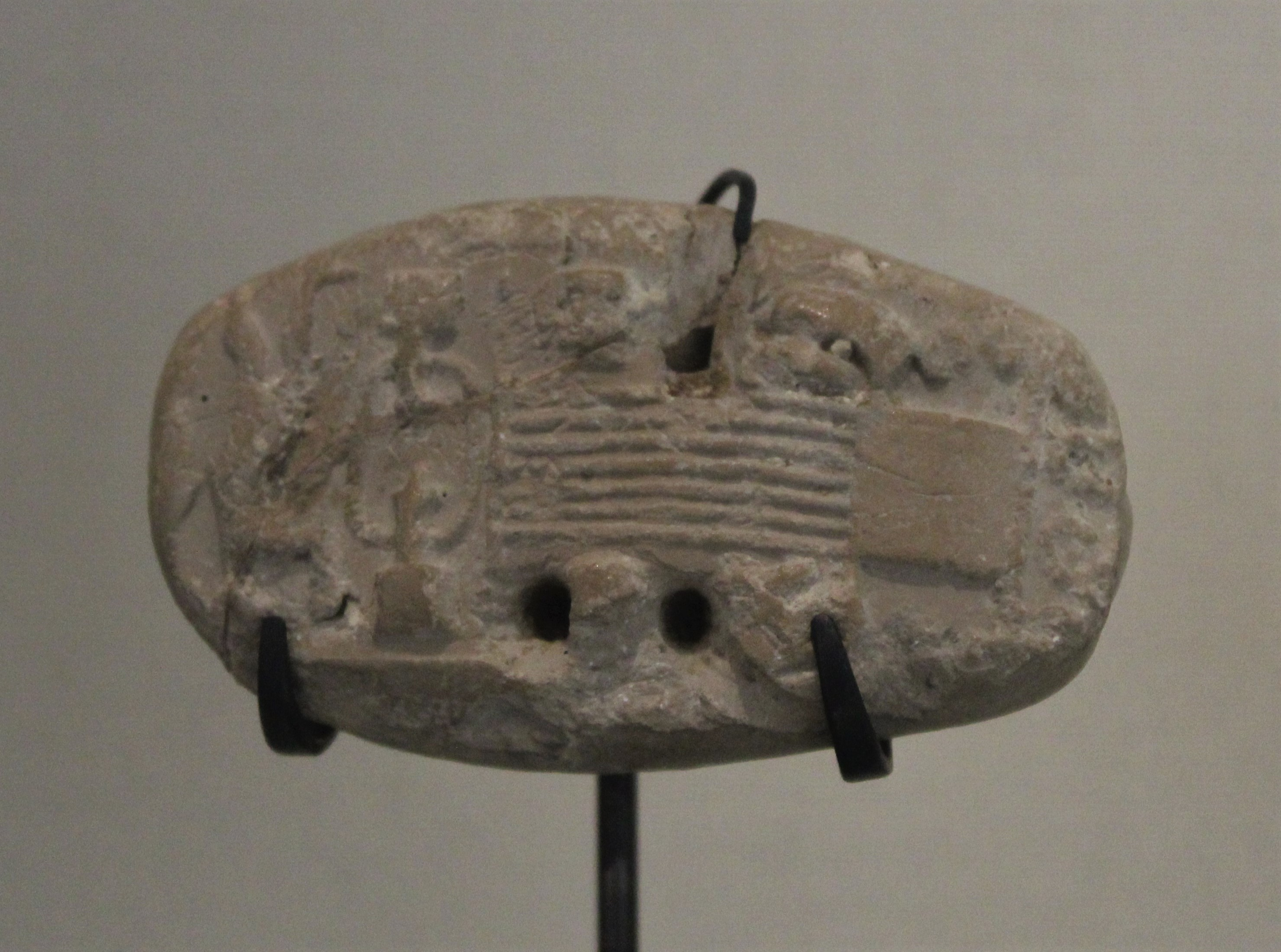 Oblong-shaped bookkeeping tablet with seal imprint depicting a weaving scene. Two characters are on either side of a loom while a third on the right operates a warping machine, intended to prepare the chain. Three digit imprints. Susa, Period II (Uruk Period), c. 3800-3100 BC. Found in the tell of the Acropolis, excavation of de Mecquenem, 1933. Sb 3048.